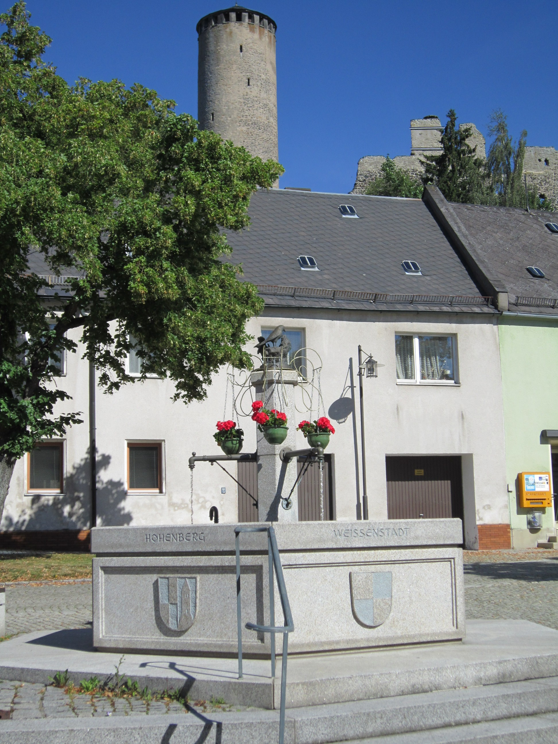 Spring "Sechsämter-Brunnen" in Thierstein; in the background the tower of Thierstein Castle